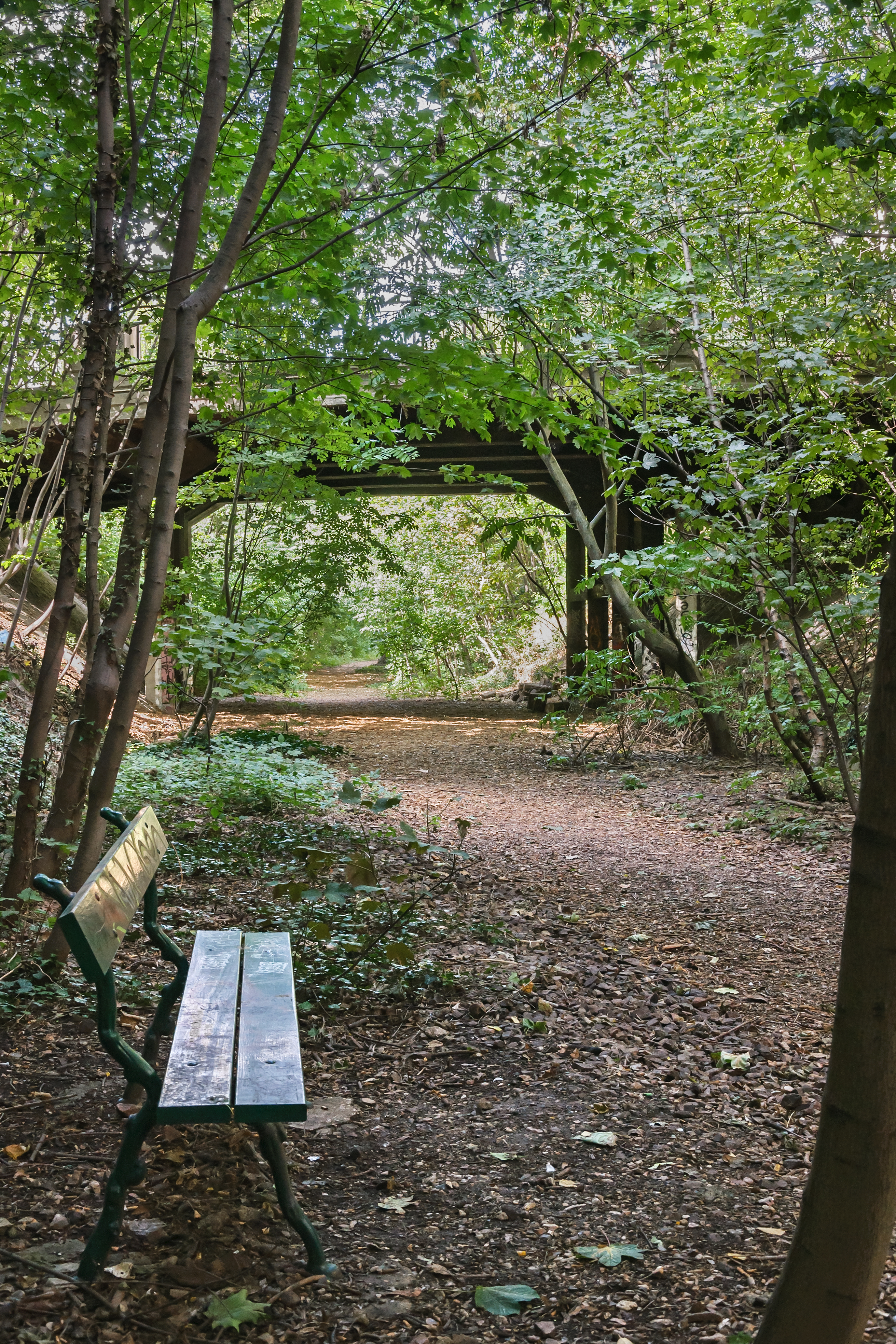 The Petite Ceinture walkway in the 16th arrondissement of Paris, France.